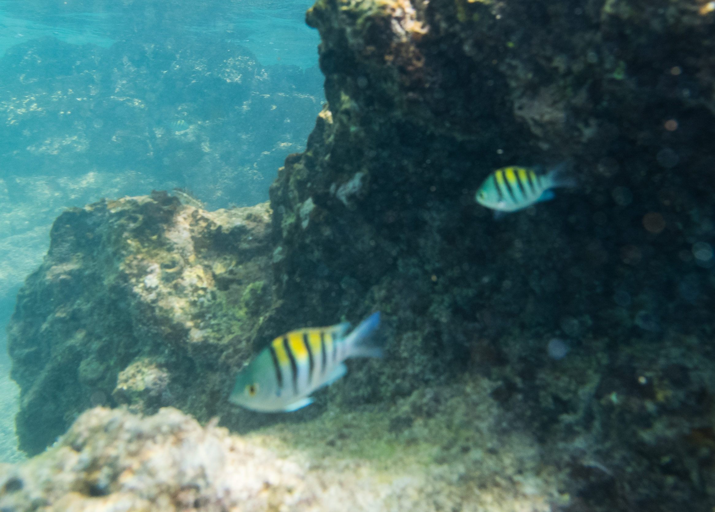 Panama Sergeant Major (Abudefduf troschelii), Las Bachas, Baltra Island, Galapagos Islands, Ecuador